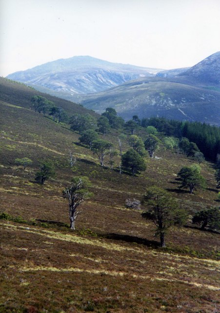 Scots Pines. On the slopes of Meall a Bhuacaille looking South East new forest meets old forest.